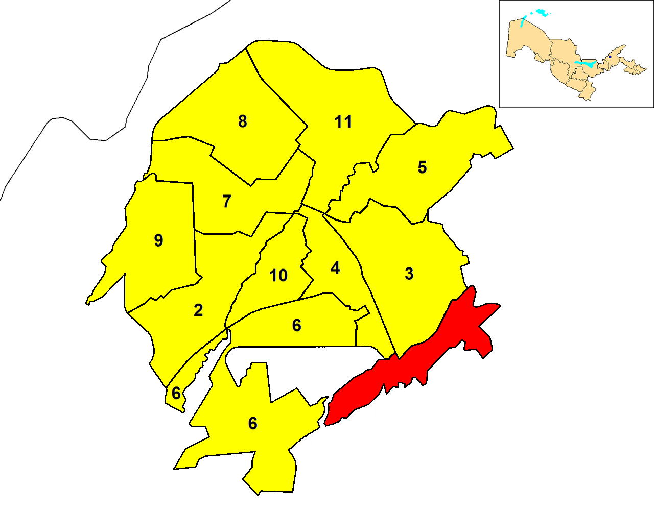 Locator map of Bektemir district (red) within Tashkent. A map of Uzbekistan, highlighting Tashkent (blue dot), is shown in the upper right corner